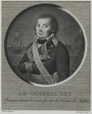 General Gabriel-Venance Rey (1763-1836) is identified as commandant of the advance guard of the Army of Naples. The engraving is in the style of the early 1800s and almost certainly dates from that period.